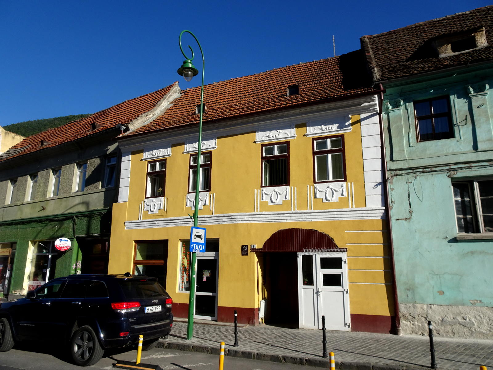 House in Bălcescu street, Brașov